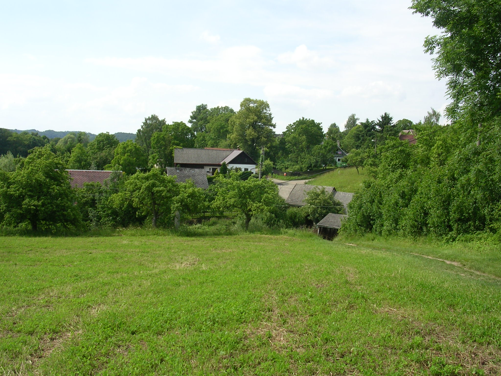 Troskovice-Tachov, Liberec Region, the Czech Republic.